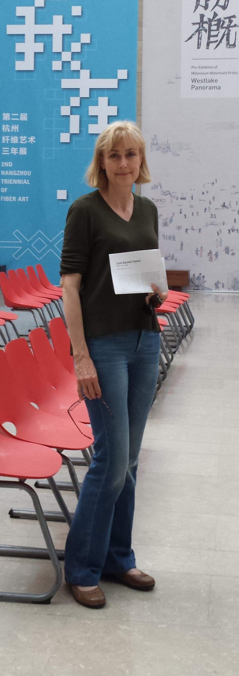 Working